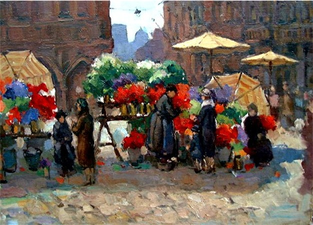 Bloemenmarkt op de Dam, Amsterdam